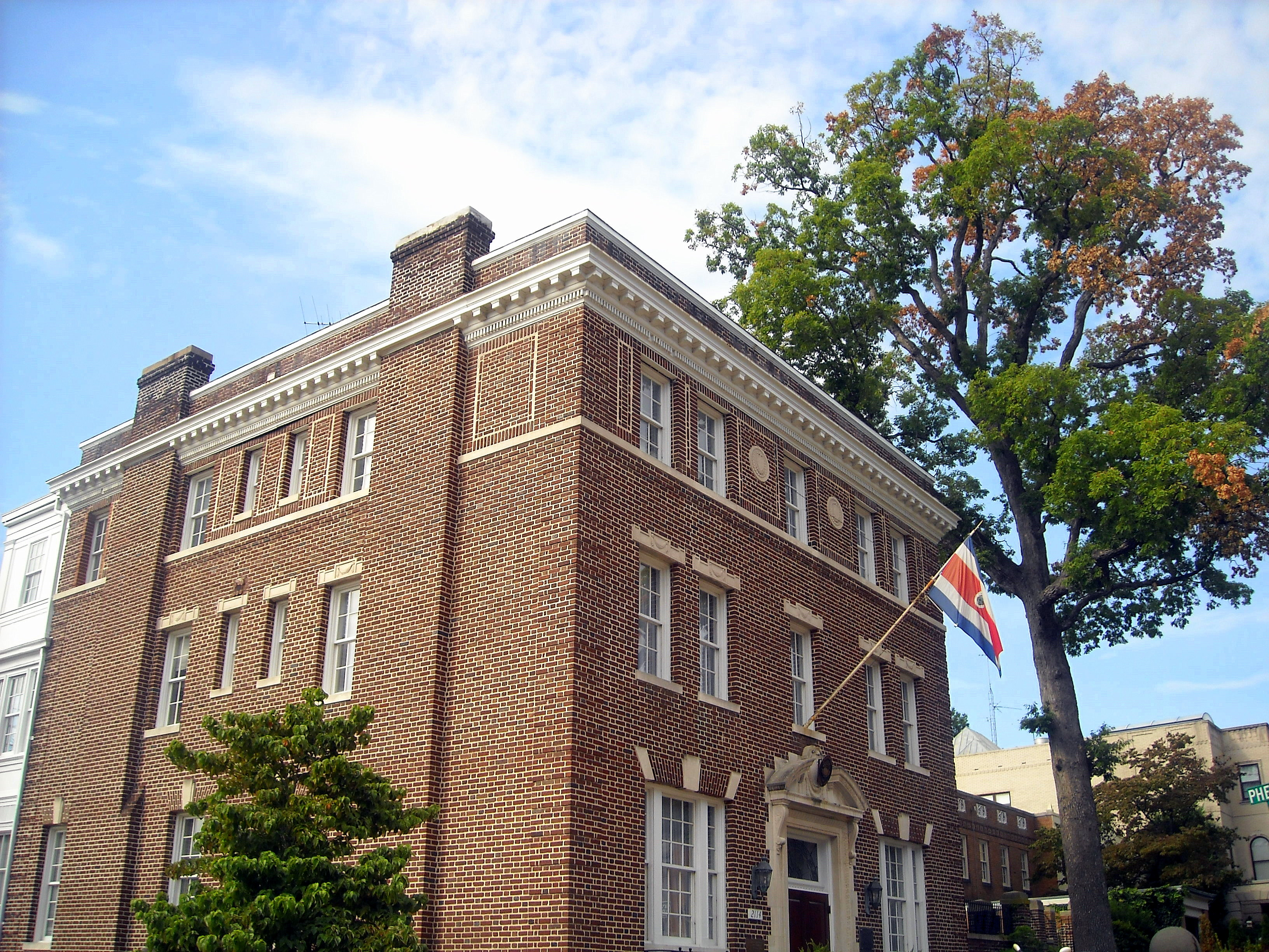 Embassy of Costa Rica at 2114 S Street, NW in the Kalorama neighborhood of Washington, D.C.